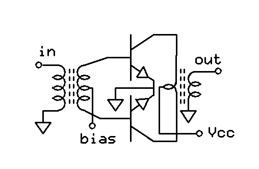 Circuit diagram of a push pull solid state tranformer coupled RF amplifier